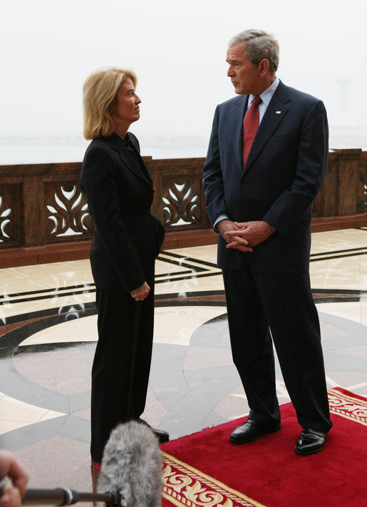 President George W. Bush is interviewed Monday, Jan. 14, 2008, by Greta Van Susteren of Fox News at the Emirates Palace in Abu Dhabi. White House photo by Eric Draper